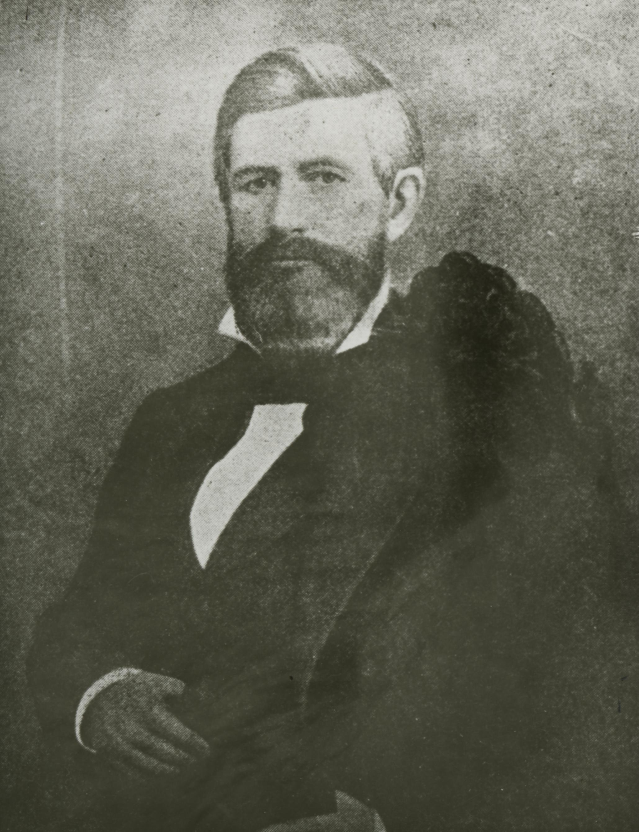 Photo of William H. Wallace, Governor of the territory of Washington in 1861 and Governor of the territory of Idaho from 1864-1865.